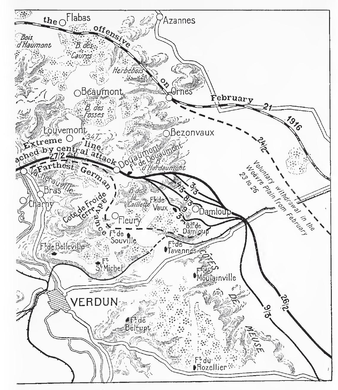 Verdun, east bank, March 1916